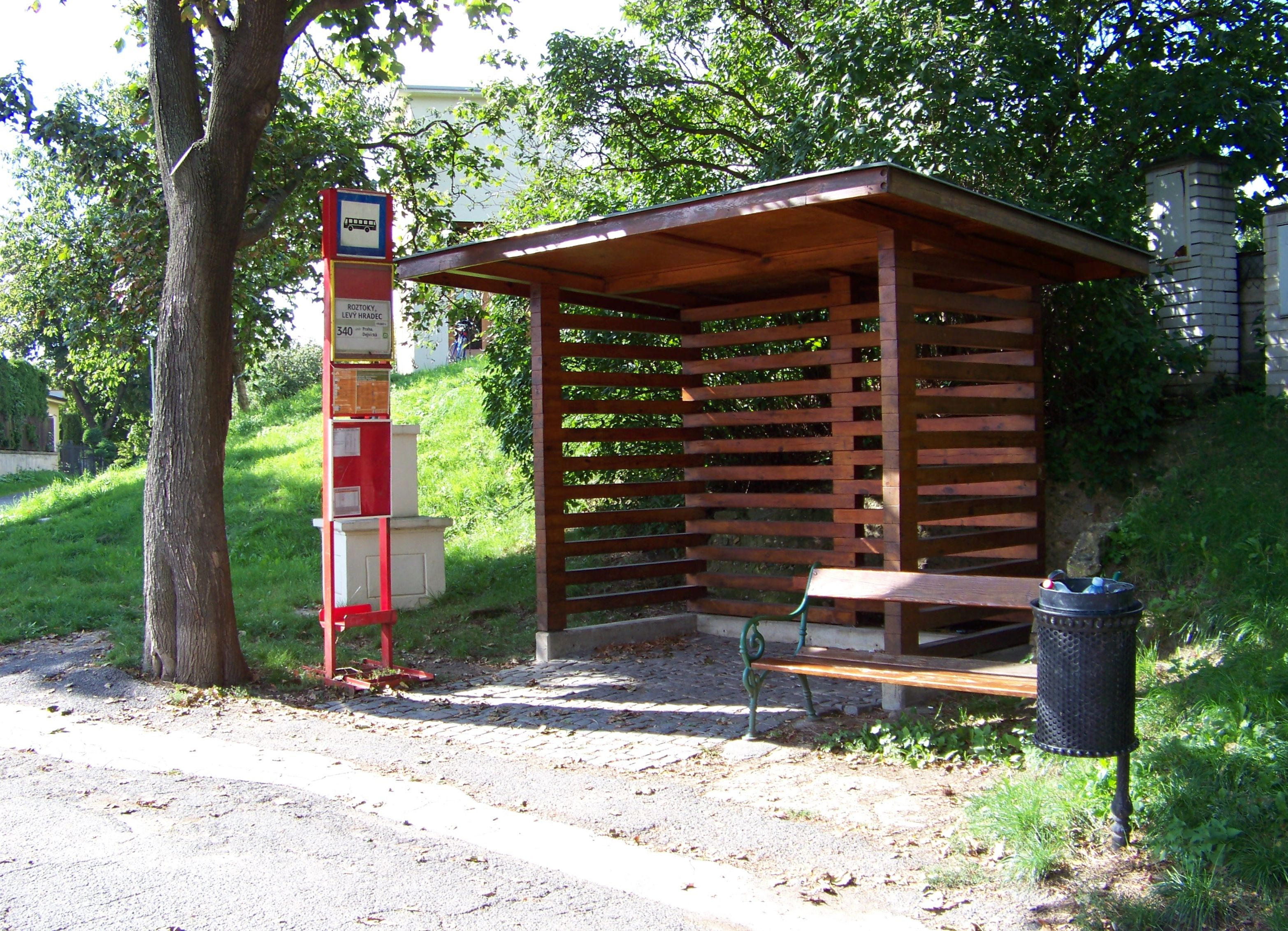 Roztoky-Žalov, Prague-West District, Central Bohemian Region. A bus stop at the bus loop Levý Hradec.